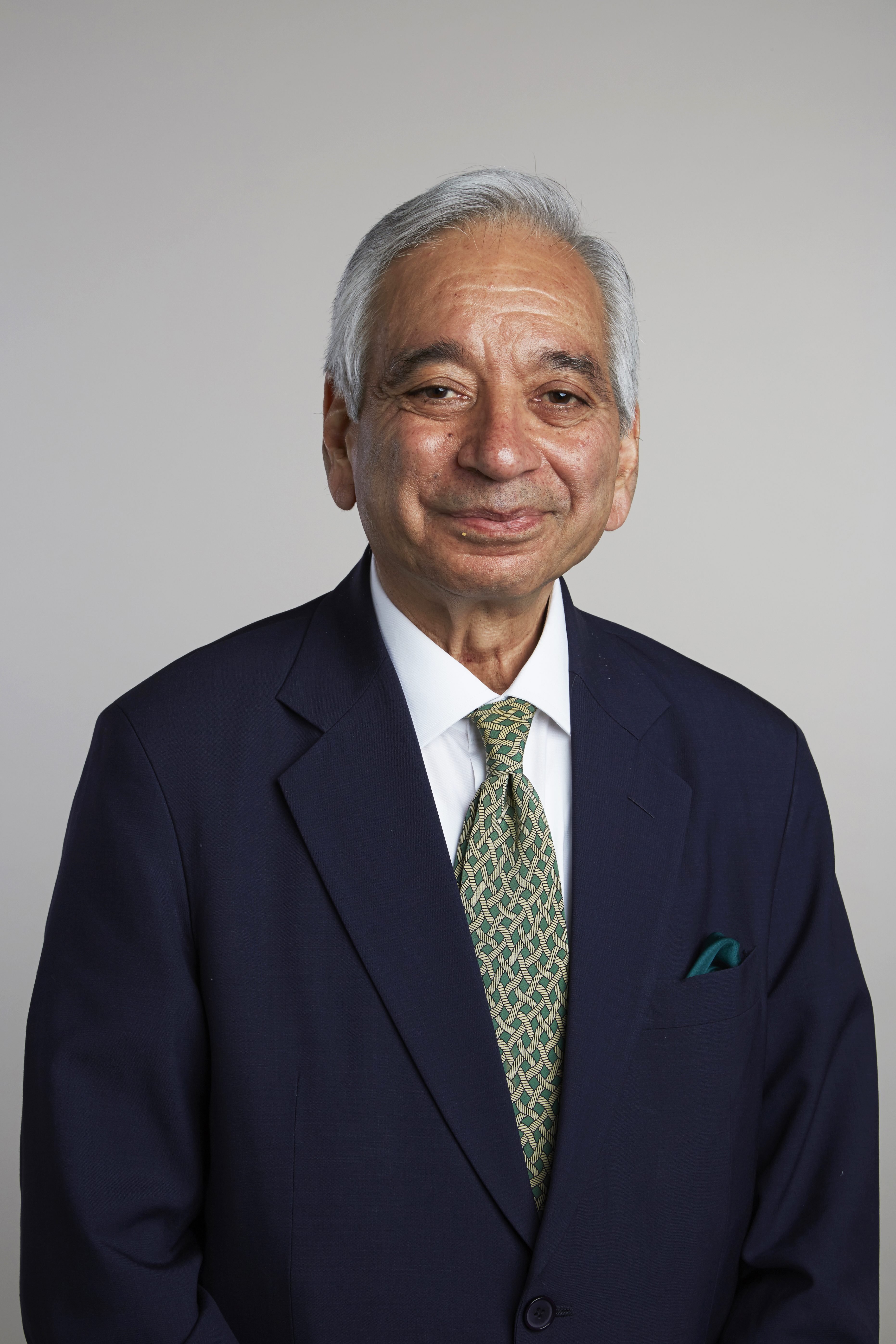 Kamal Bawa is a Distinguished Professor of Biology at the University of Massachusetts Boston. His discoveries of unusual breeding systems, novel pollination mechanisms, and long distance gene flow in tropical forest trees changed the prevailing notions about population biology and evolution of these trees. He proposed new hypotheses for the evolution of almost every major type of breeding system in plants. Later, he extended his work from population biology to sustainable use of forest resources, conservation of large tropical landscapes, and climate change. Kamal Bawa is also Founder-President of the Bangalore-based Ashoka Trust for Research in Ecology and the Environment (ATREE: an innovative environmental think tank that fosters the generation of interdisciplinary knowledge to address pressing challenges emerging from interaction between environment and development. Among the many awards Kamal Bawa has received are: Giorgio Ruffolo Fellowship at Harvard University, Guggenheim Fellowship, Pew Scholar in Conservation and the Environment, the Distinguished Service Award from the Society for Conservation Biology, the Gunnerus Award in Sustainability Science, and the MIDORI Prize in Biodiversity. He is a Fellow of the American Academy of Arts and Sciences. Attribution: The Royal Society